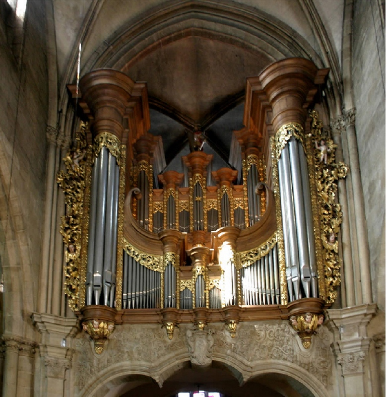 organ tholey